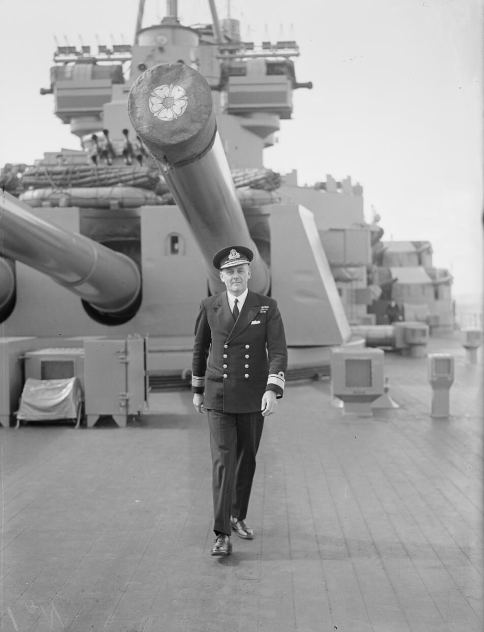 IWM caption : Rear Admiral Douglas Fisher walking the quarterdeck of HMS DUKE OF YORK. Part of the quadruple 14 inch Y turret can be seen behind him.